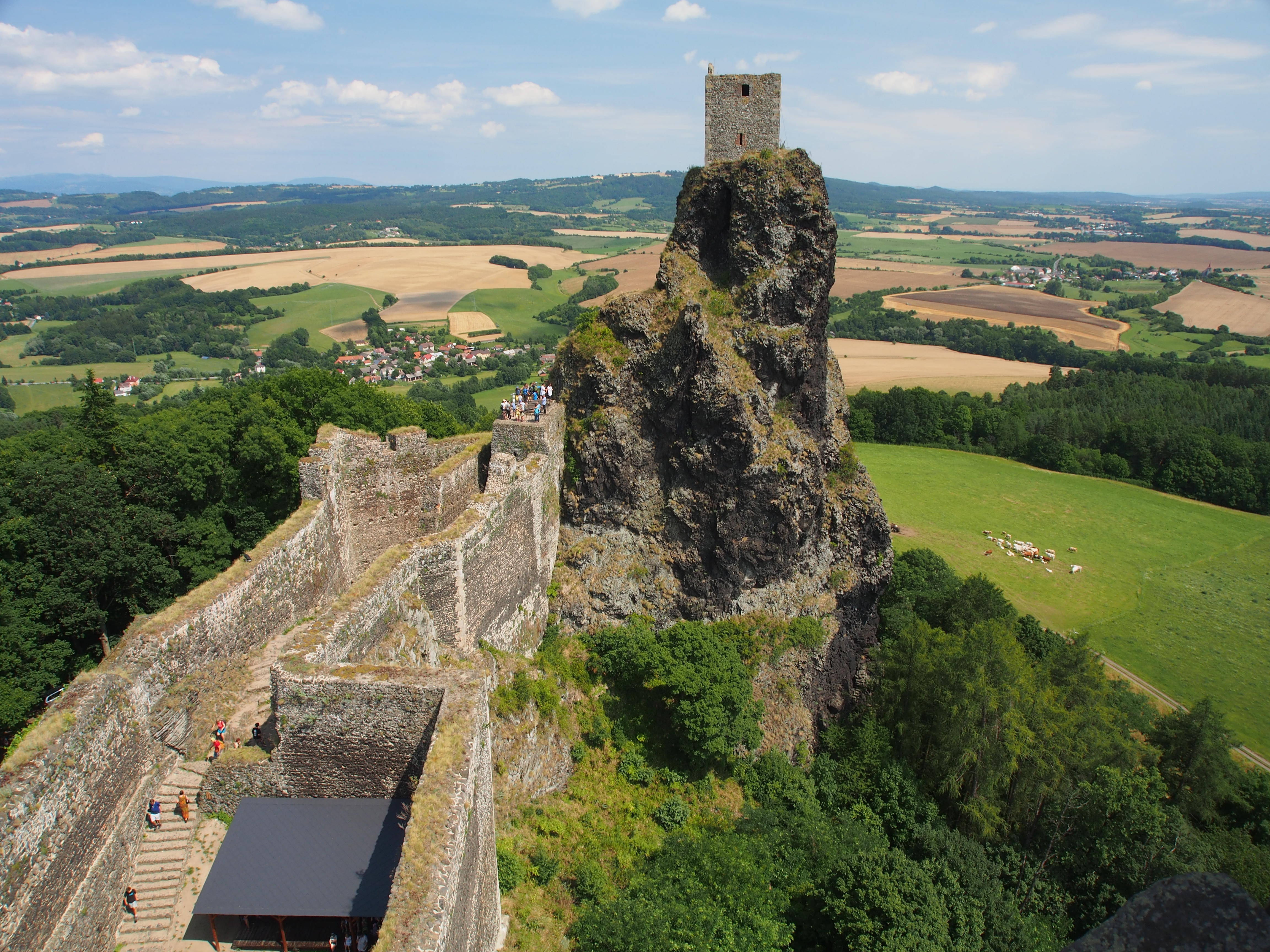 Trosky Castle, perched atop the cores of two extinct volcanoes, Cesky Raj This is an image of the Biosphere Reserve or a Geopark: Bohemian Paradise